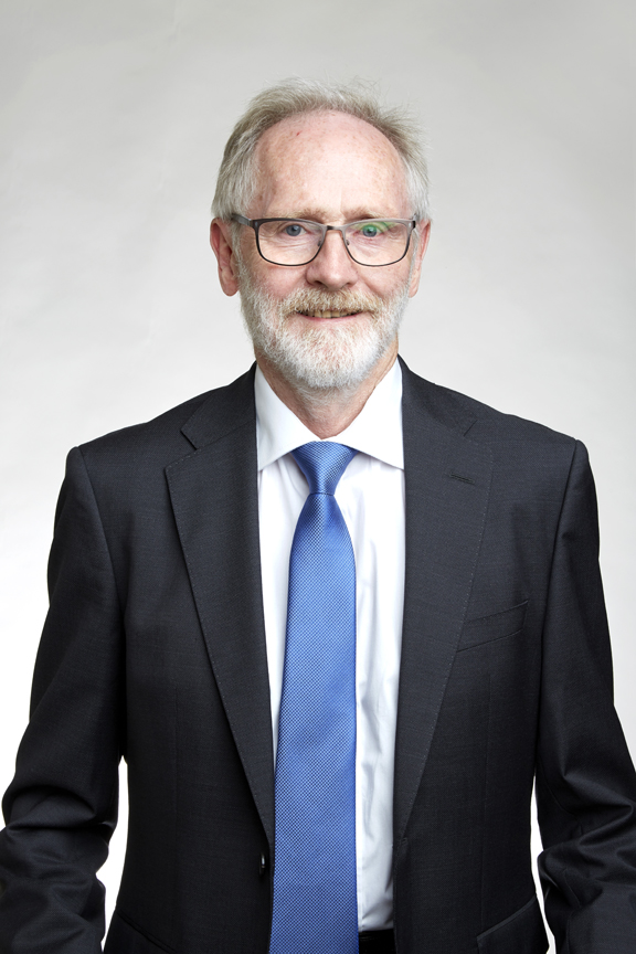 Roger Sidney Goody is an English biochemist. He served as director at the Max Planck Institute for Molecular Physiology in Dortmund from 1993 until 2013 Attribution: The Royal Society